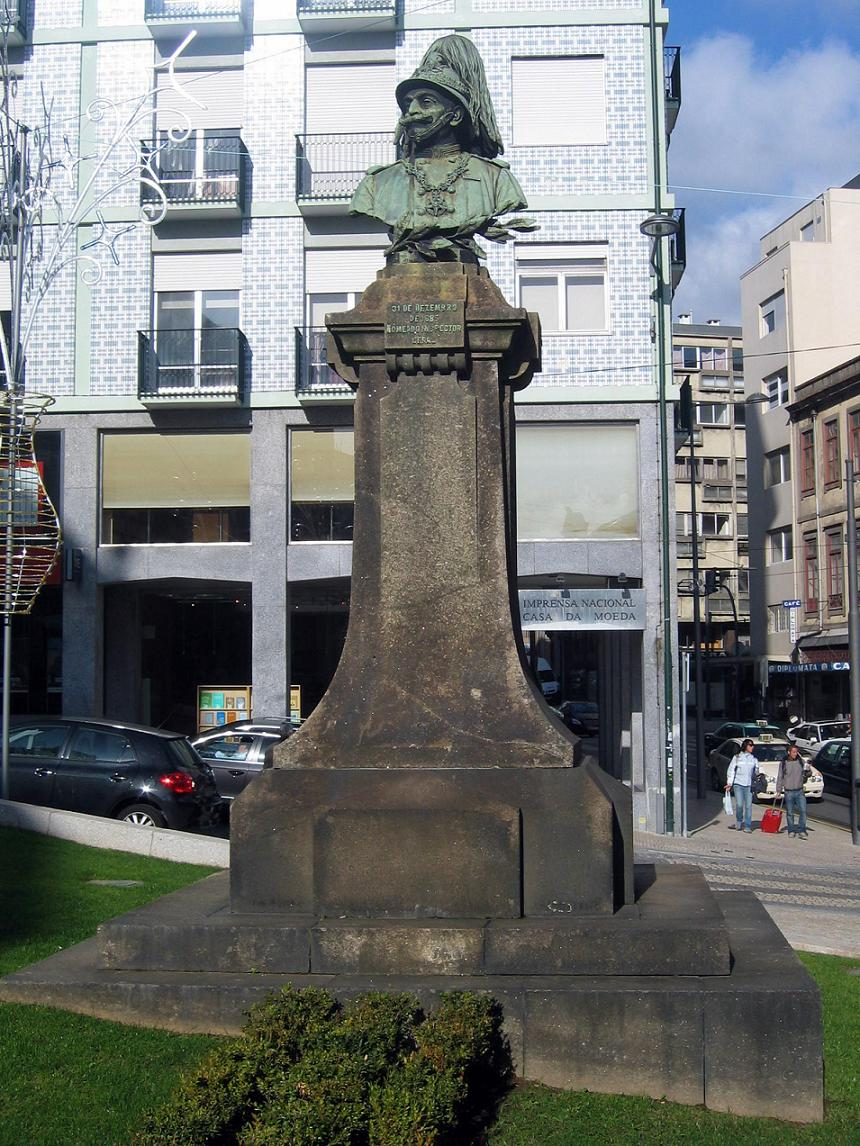 Bust of Guilherme Gomes Fernandes - Sculptor Bento Cândido da Silva - Oporto - Portugal